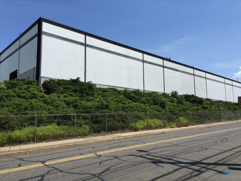 Photo of the black-and-white Modernist facade of the Miller Company addition, designed by Philip Johnson, built in 1965. Center Street, Meriden, CT.